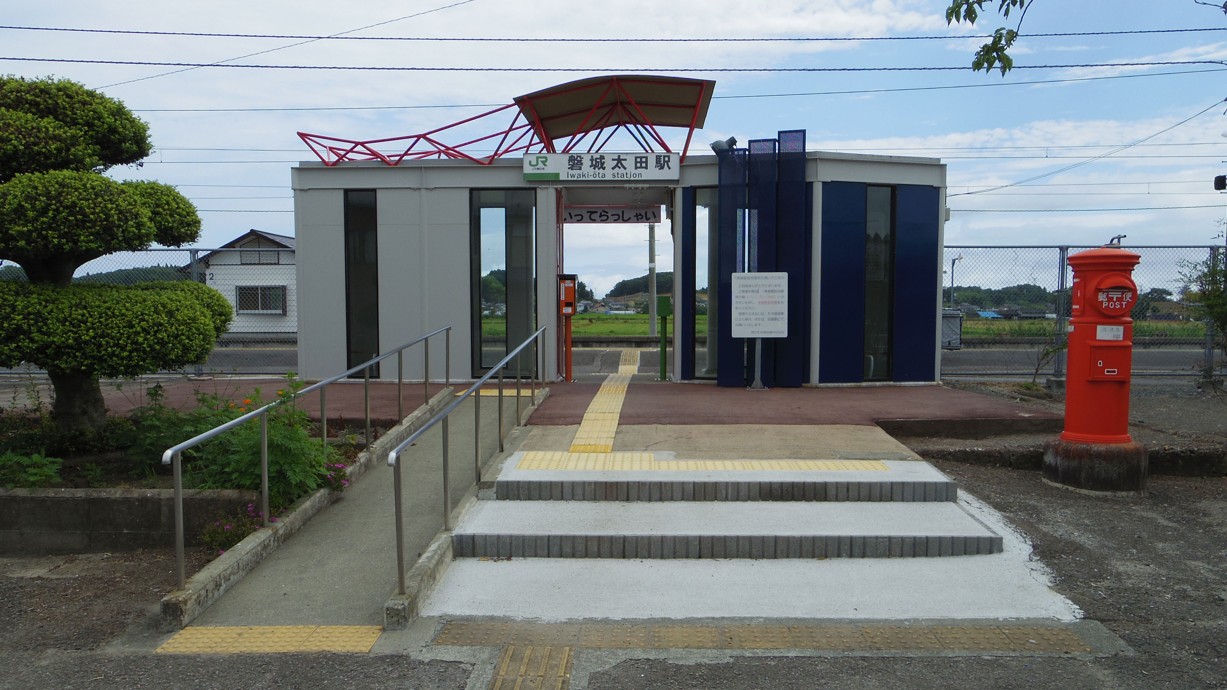 The entrance to Iwaki-Ōta Station on the Jōban Line in Fukushima Prefecture, Japan